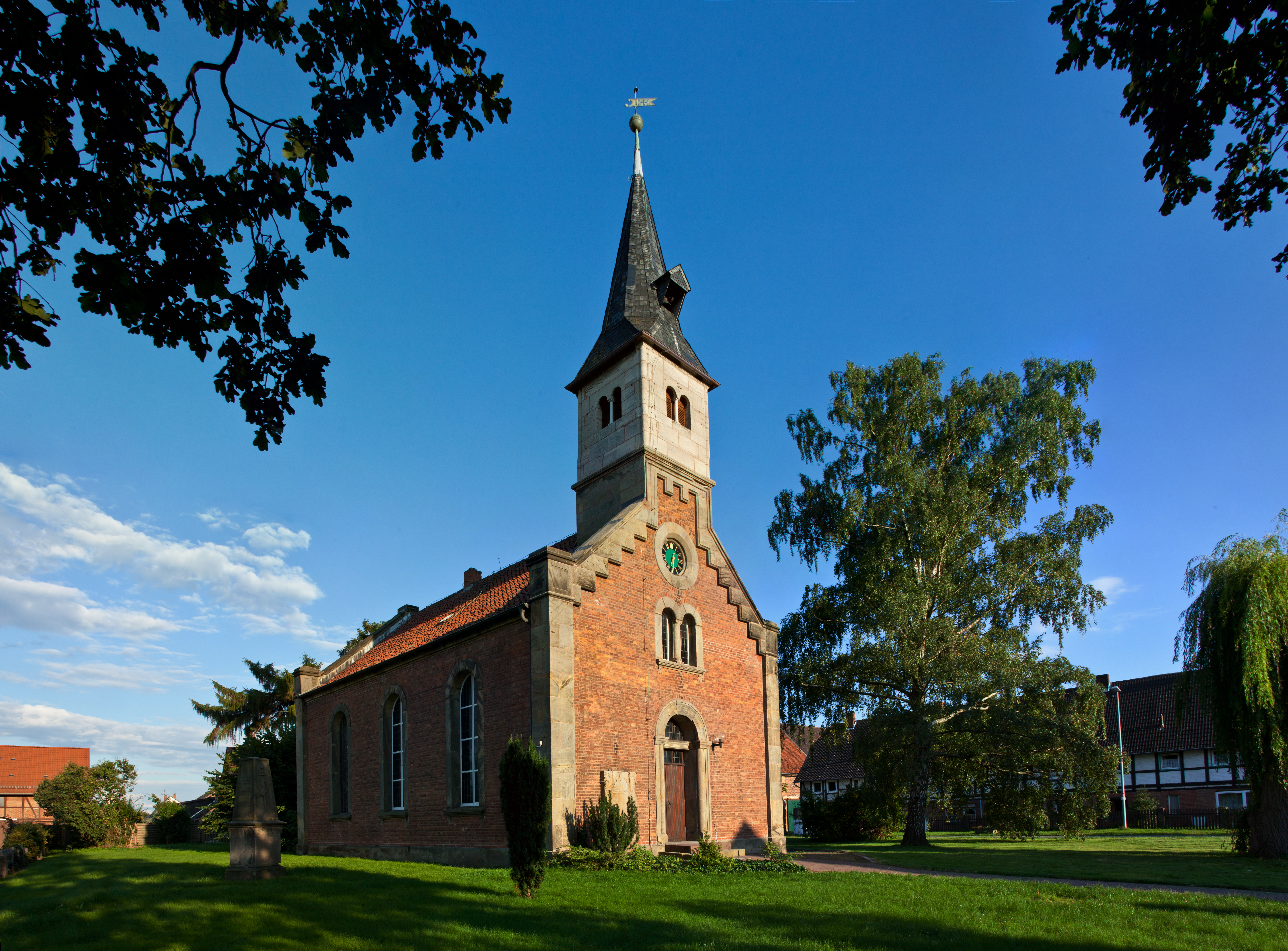 The Saint Nicholas church in Alvesse near Vechelde in Lower Saxony, Germany